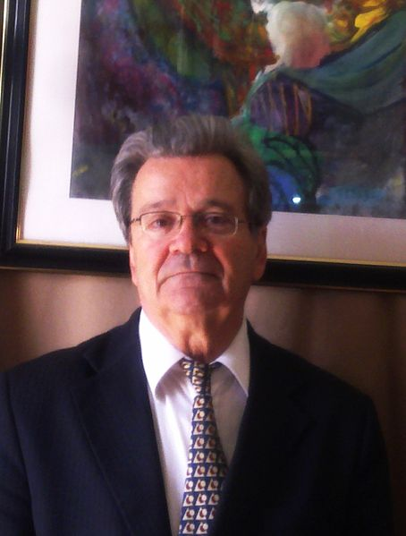 Фотографија